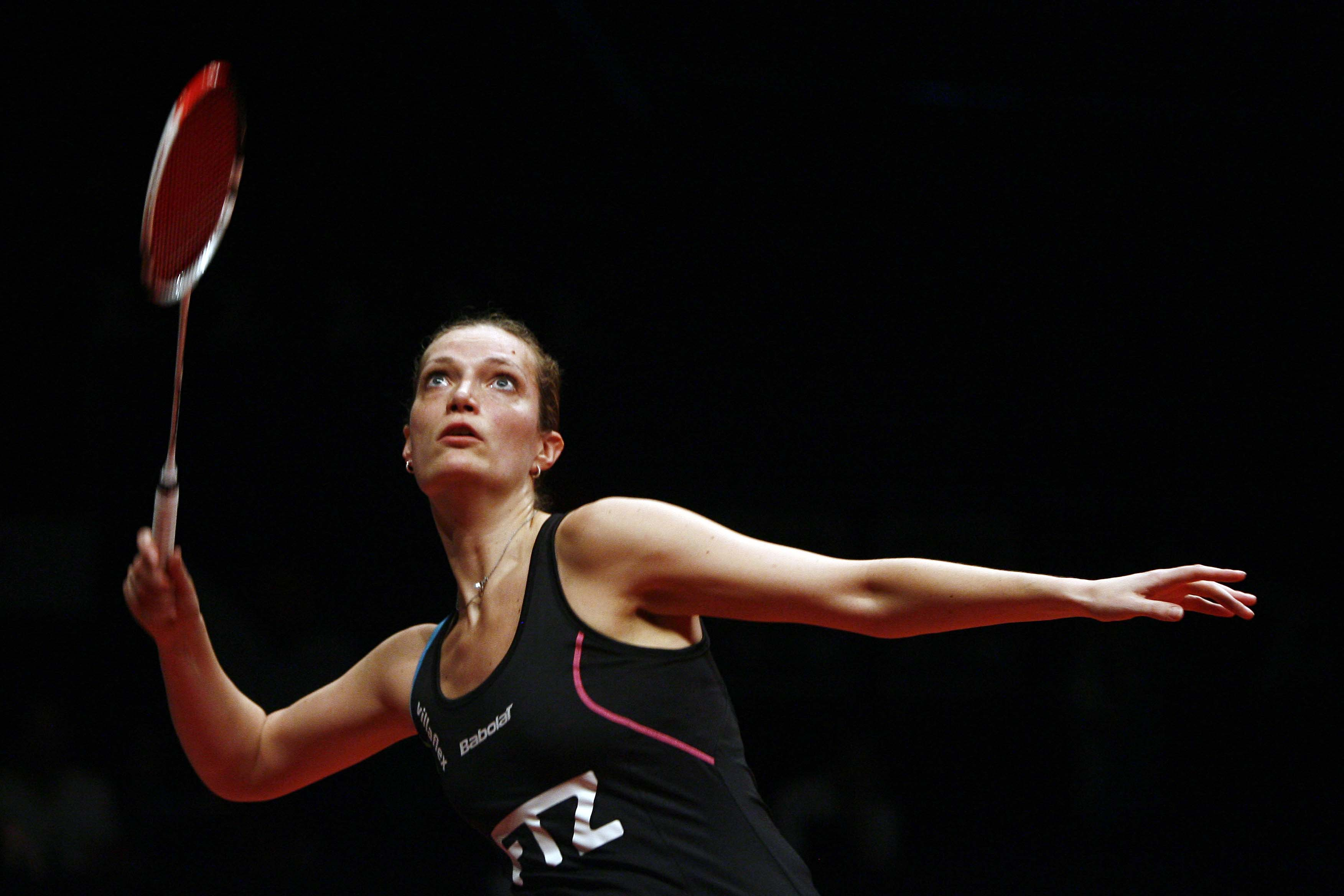 Tine Baun at 2013 Axiata Cup